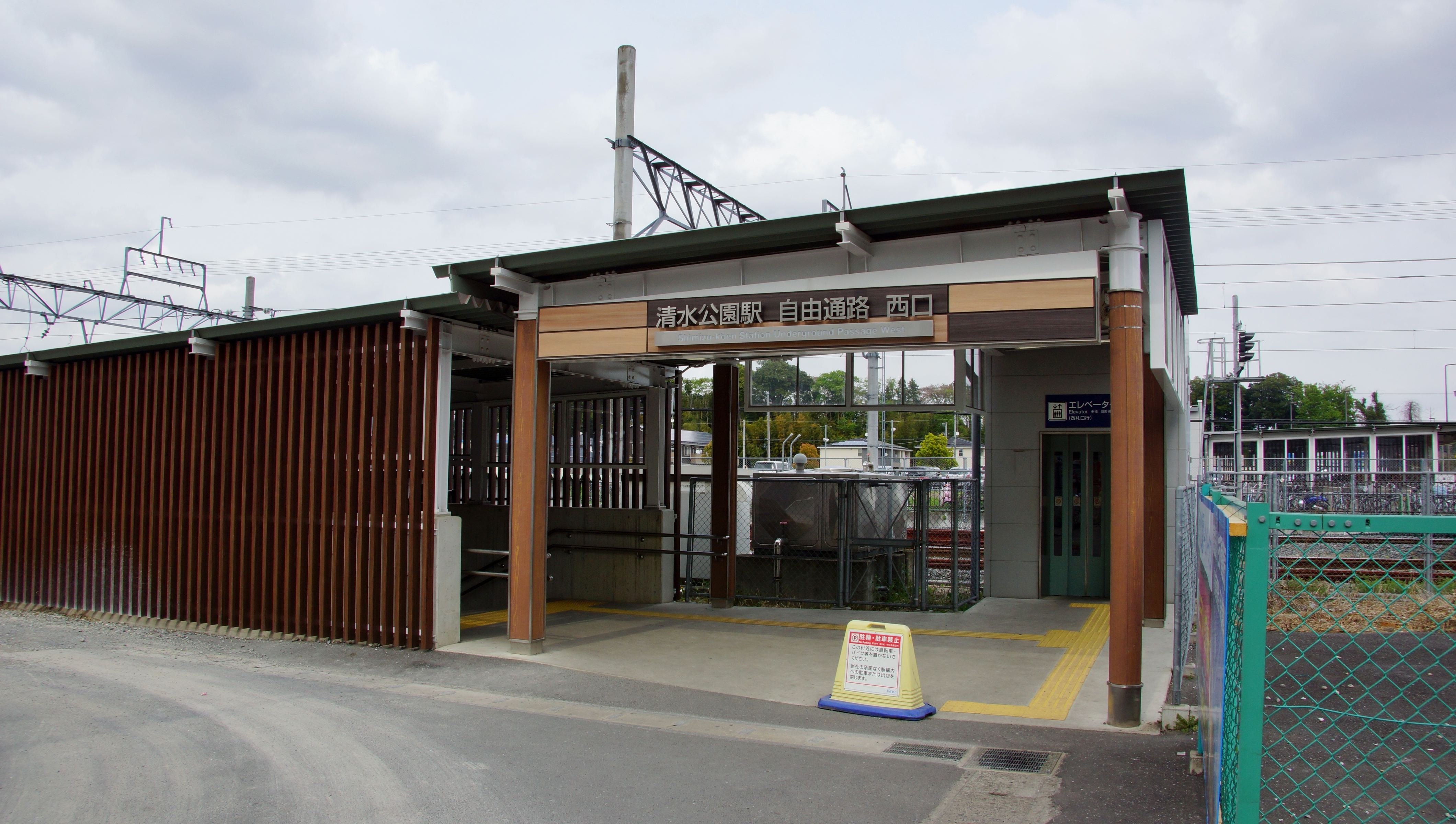 The west entrance to Shimizu-koen Station on the Tobu Urban Park Line